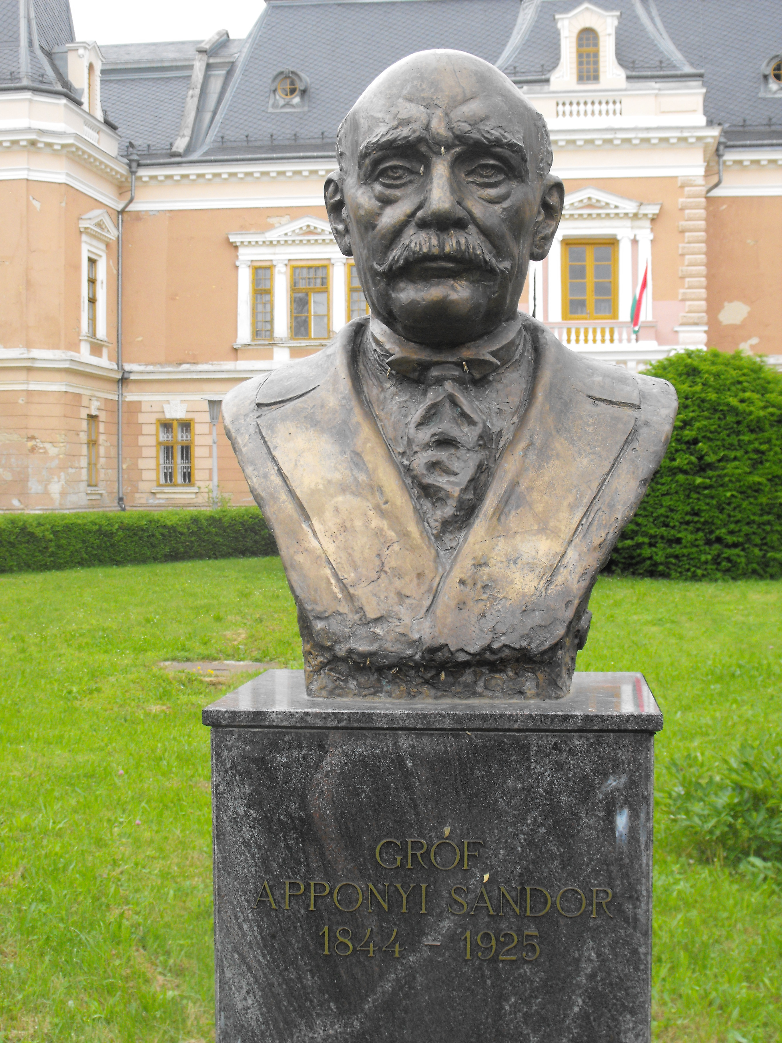 Statue of Sándor Apponyi, diplomat and bibliographer in Lengyel, Hungary. Apponyi Mansion This is a photo of a monument in Hungary. Identifier: 8662